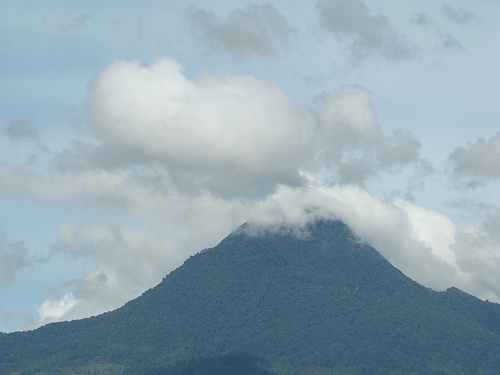 Mount Matutum, Philippines